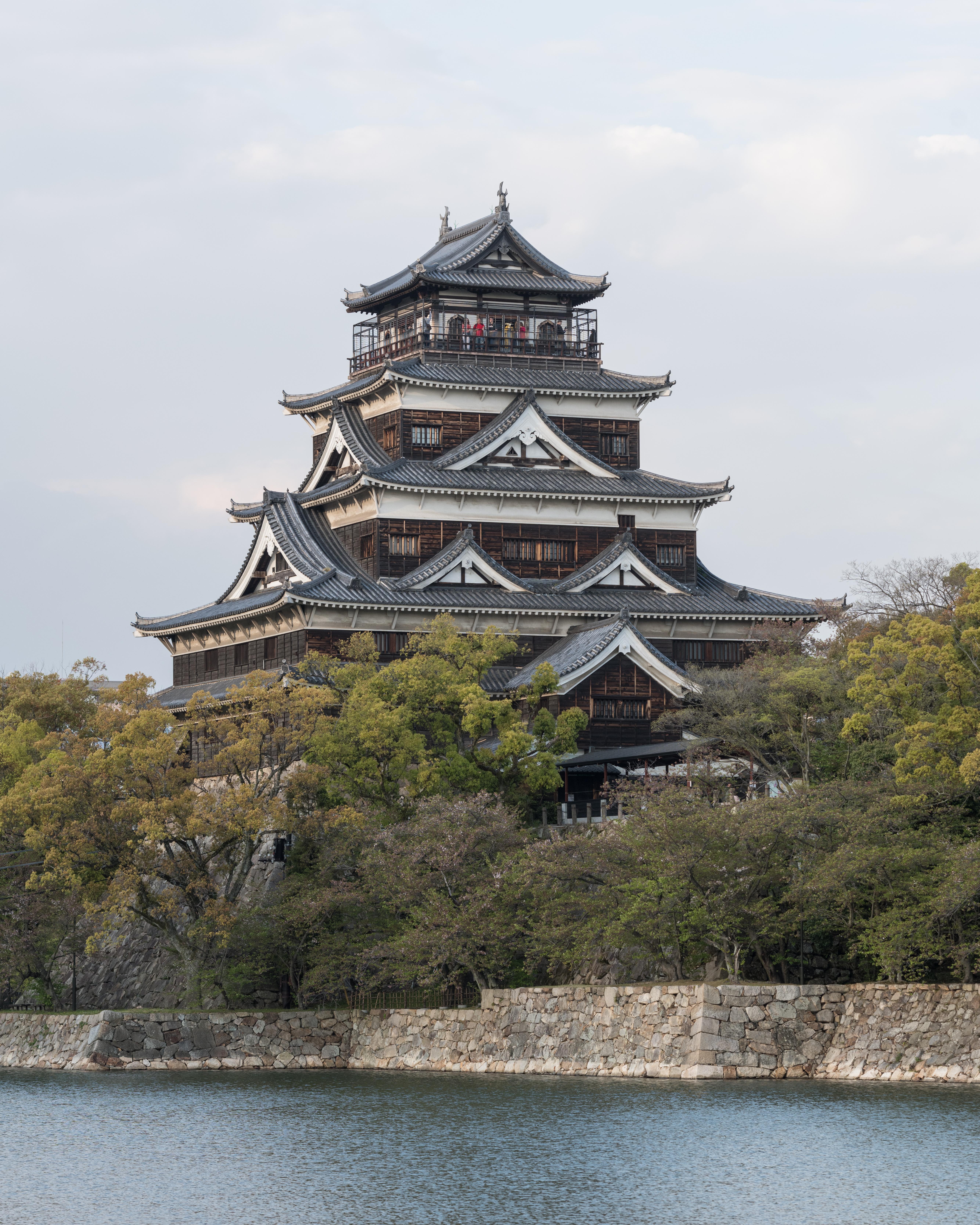 A southwest view of the keep of Hiroshima Castle